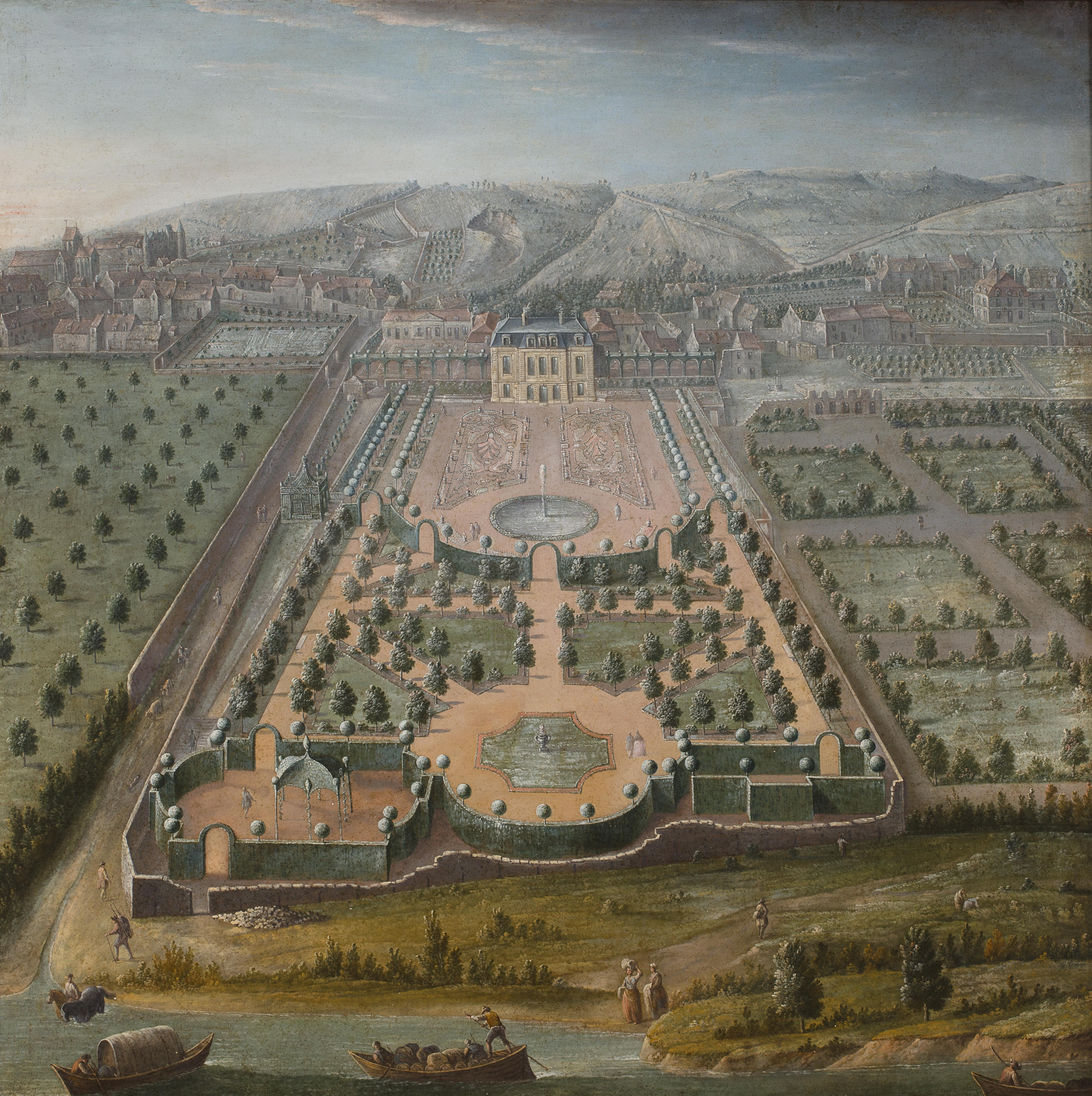 A French estate, oil on canvas, 131 x 130 cm; French School, early 18th Century